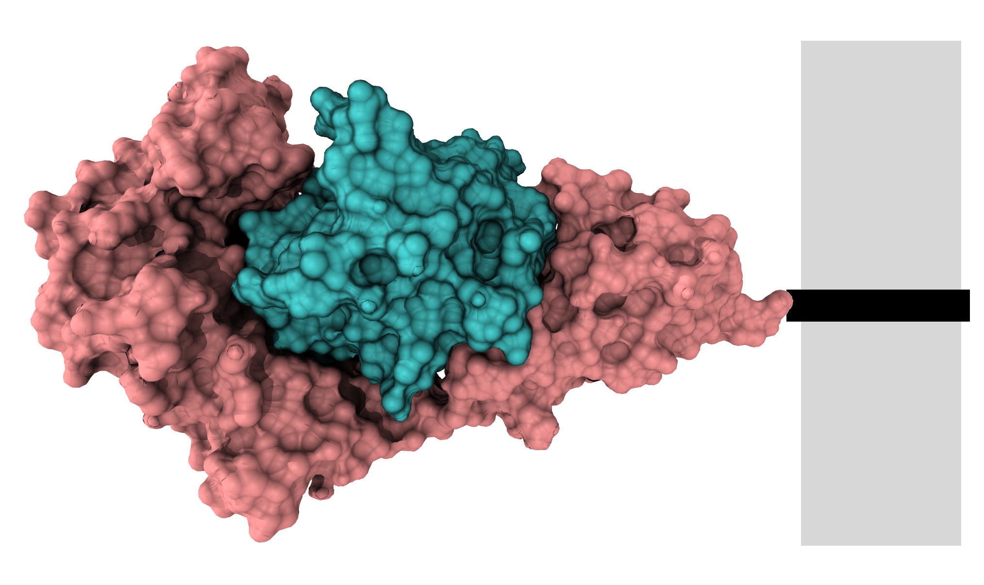 Surface model of extracellular interleukin-1 receptor+interleukin-1-beta complex (IL1R pink + IL1B cyan) after PDB 1ITB. The receptor protein continues at the black rectangle into the membrane (grey). Ref.: Vigers GP, Anderson LJ, Caffes P, Brandhuber BJ (March 1997). "Crystal structure of the type-I interleukin-1 receptor complexed with interleukin-1beta". Nature 386 (6621): 190–4. PMID 9062193. This image was created with VMD